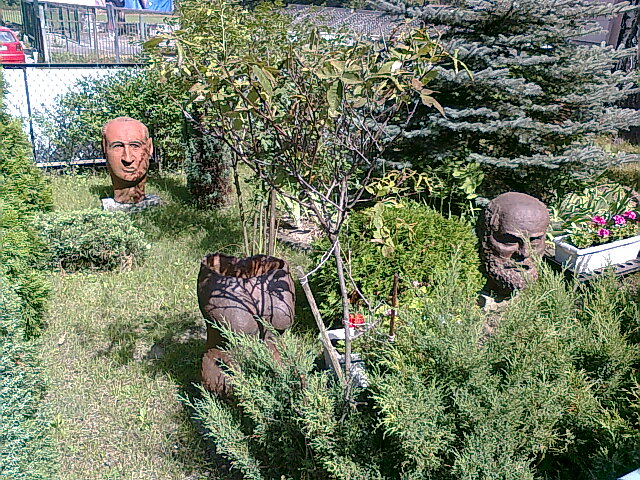 Sculpture of the deafblind persons in Lublin - Poland (August 2012)